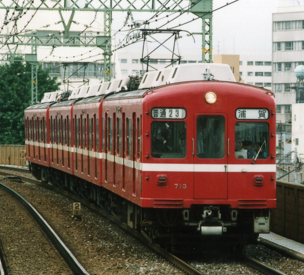 Keikyu 713 at Shimbamba Station